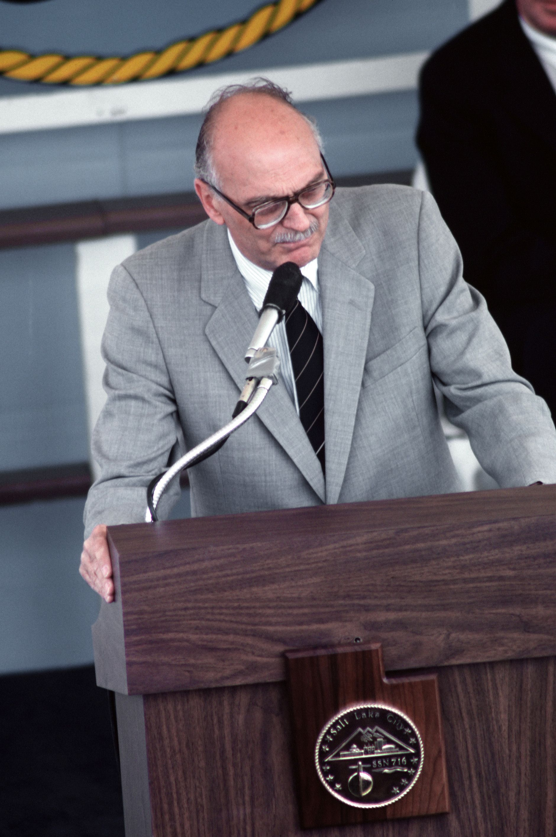 "Governor Scott M. Matheson of Utah addresses guests attending the commissioning ceremony for the nuclear-powered attack submarine USS SALT LAKE CITY (SSN 716). Location: NORFOLK, VIRGINIA (VA) UNITED STATES OF AMERICA (USA)"